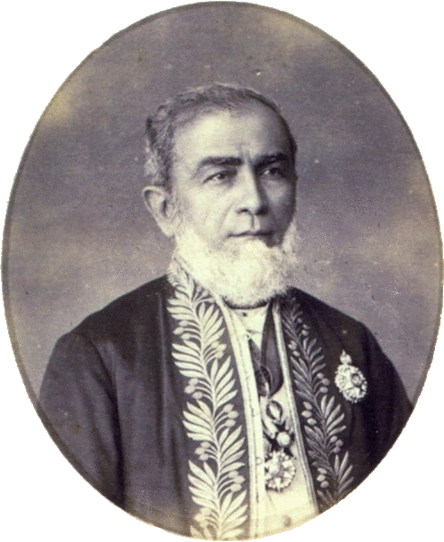 The 2nd Marquis of Paranaguá, 1885.